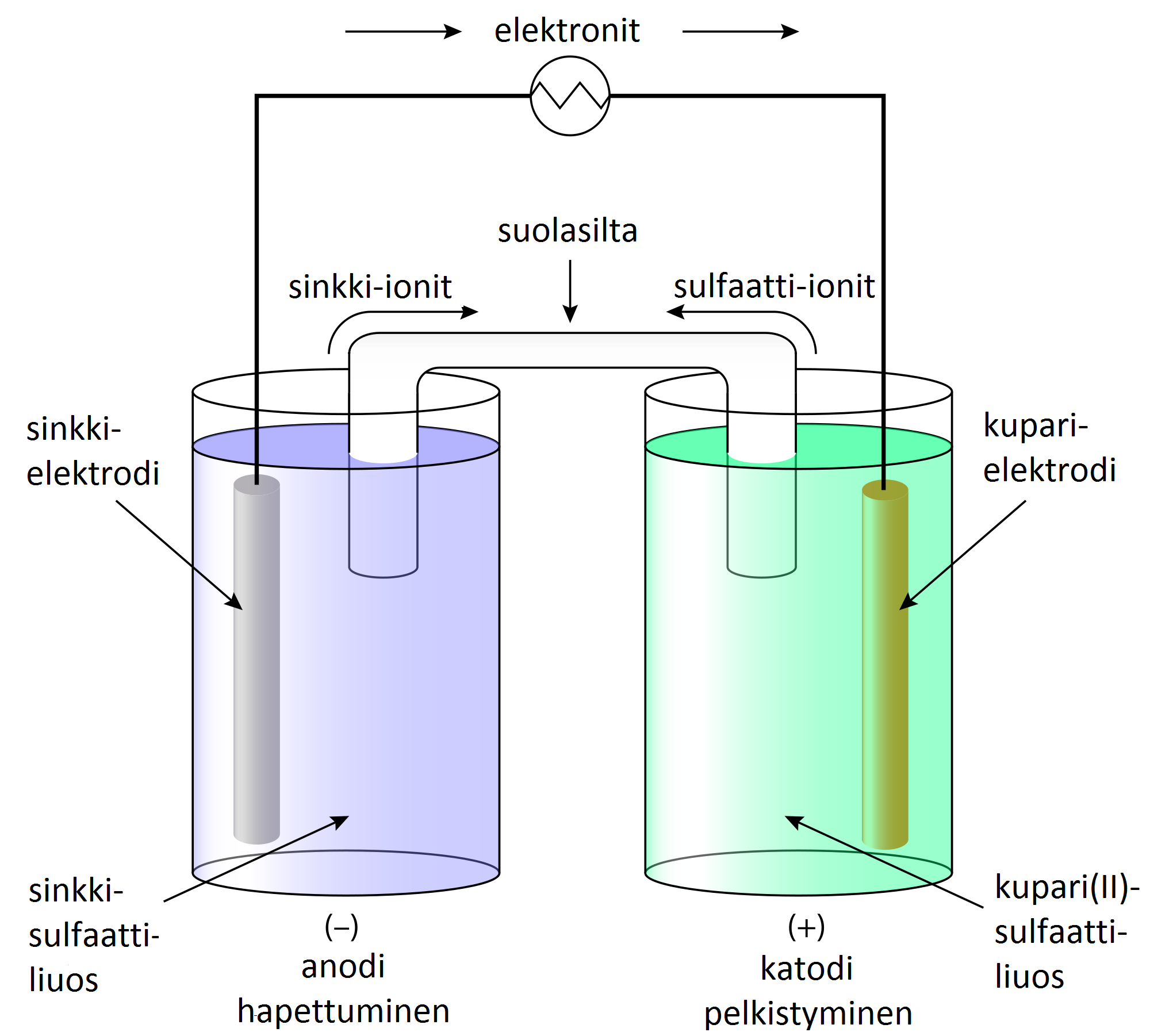 A common example of a galvanic cell in Finnish